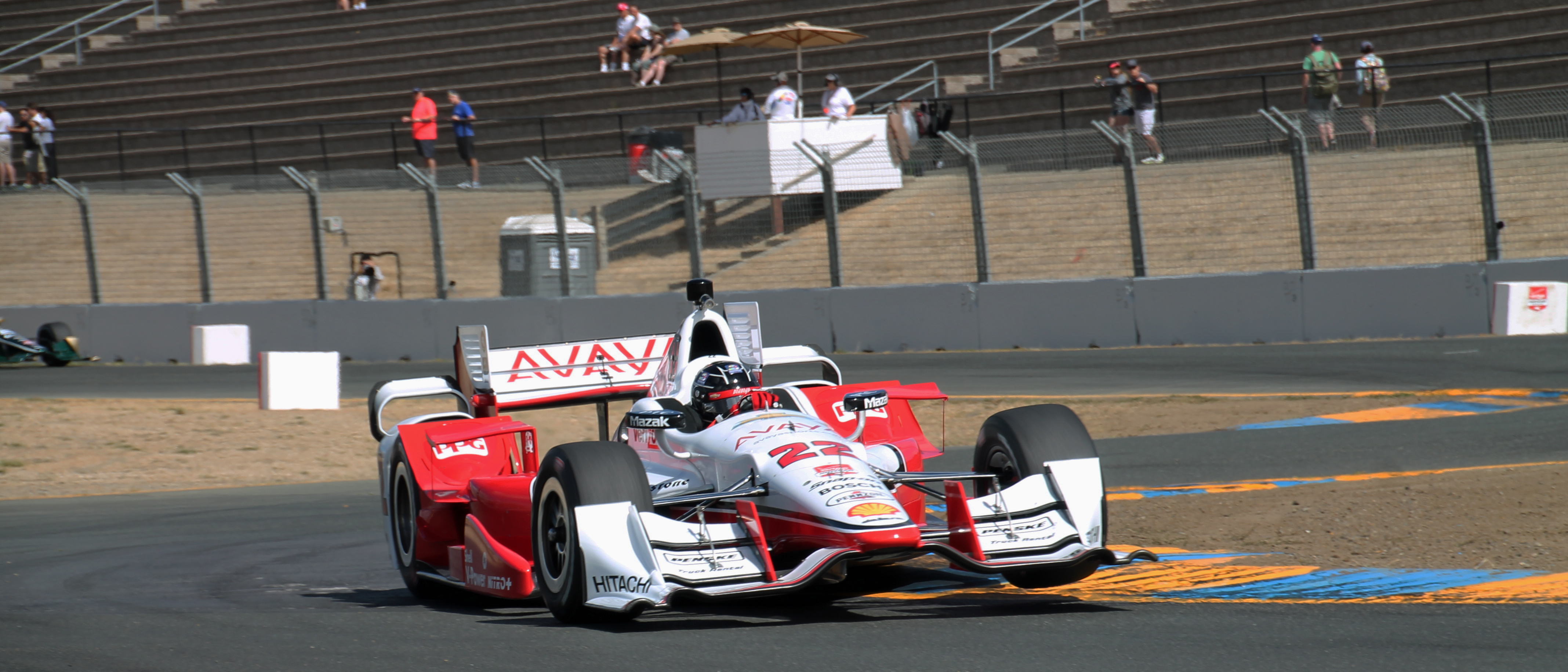 Simon Pagenaud at the 2015 GoPro Grand Prix of Sonoma